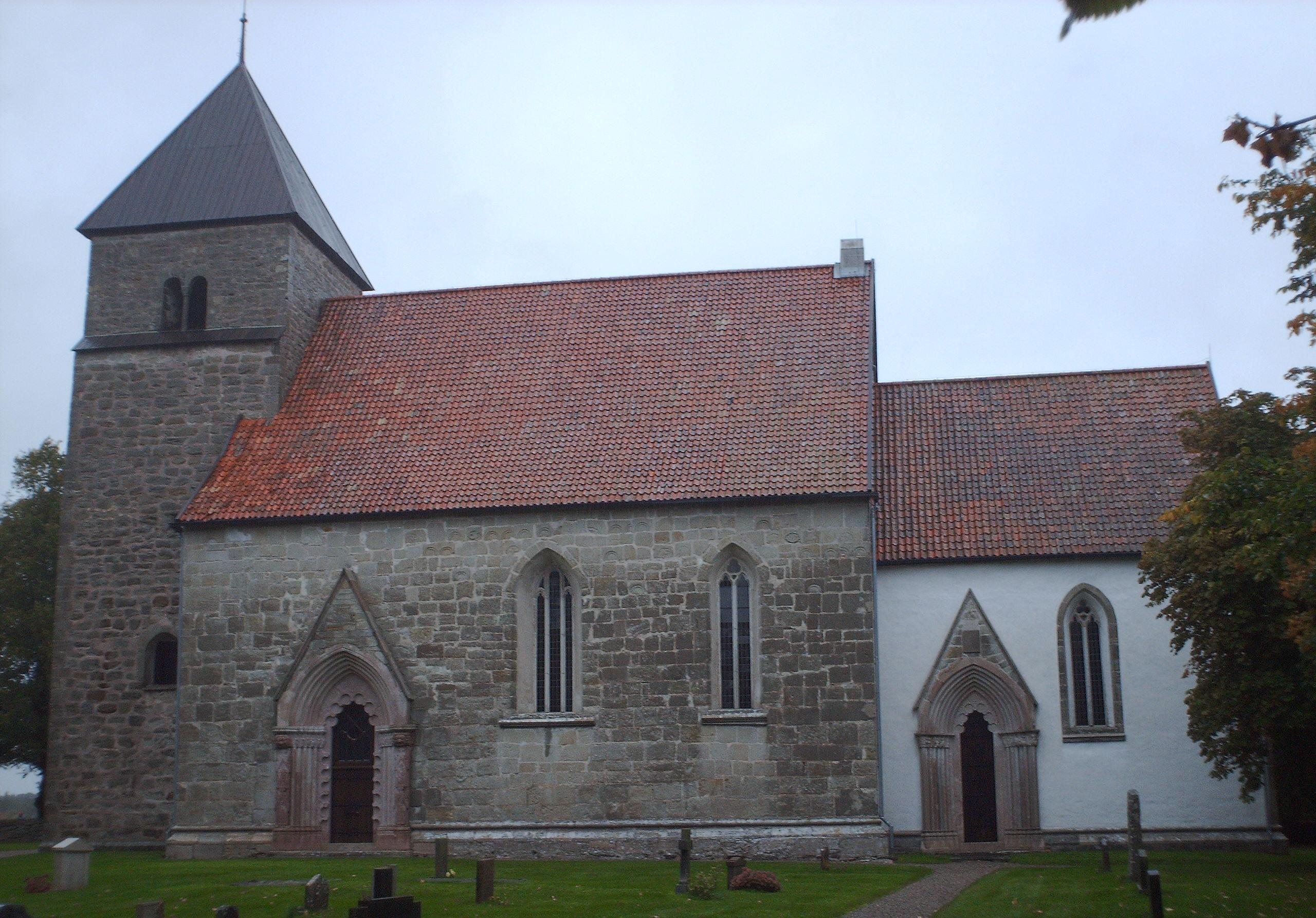 Hablingbo Church, Gotland, Sweden